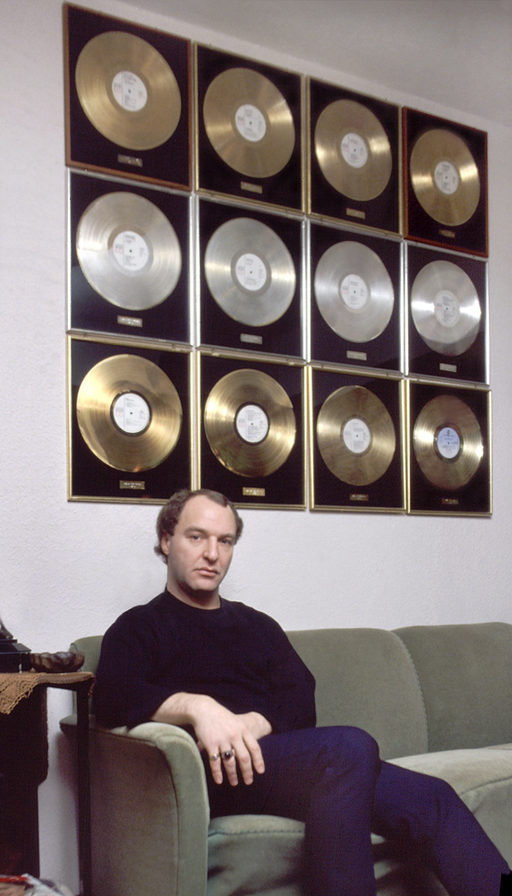 Finnish musician Remu Aaltonen with his gold records in his home in Helsinki.